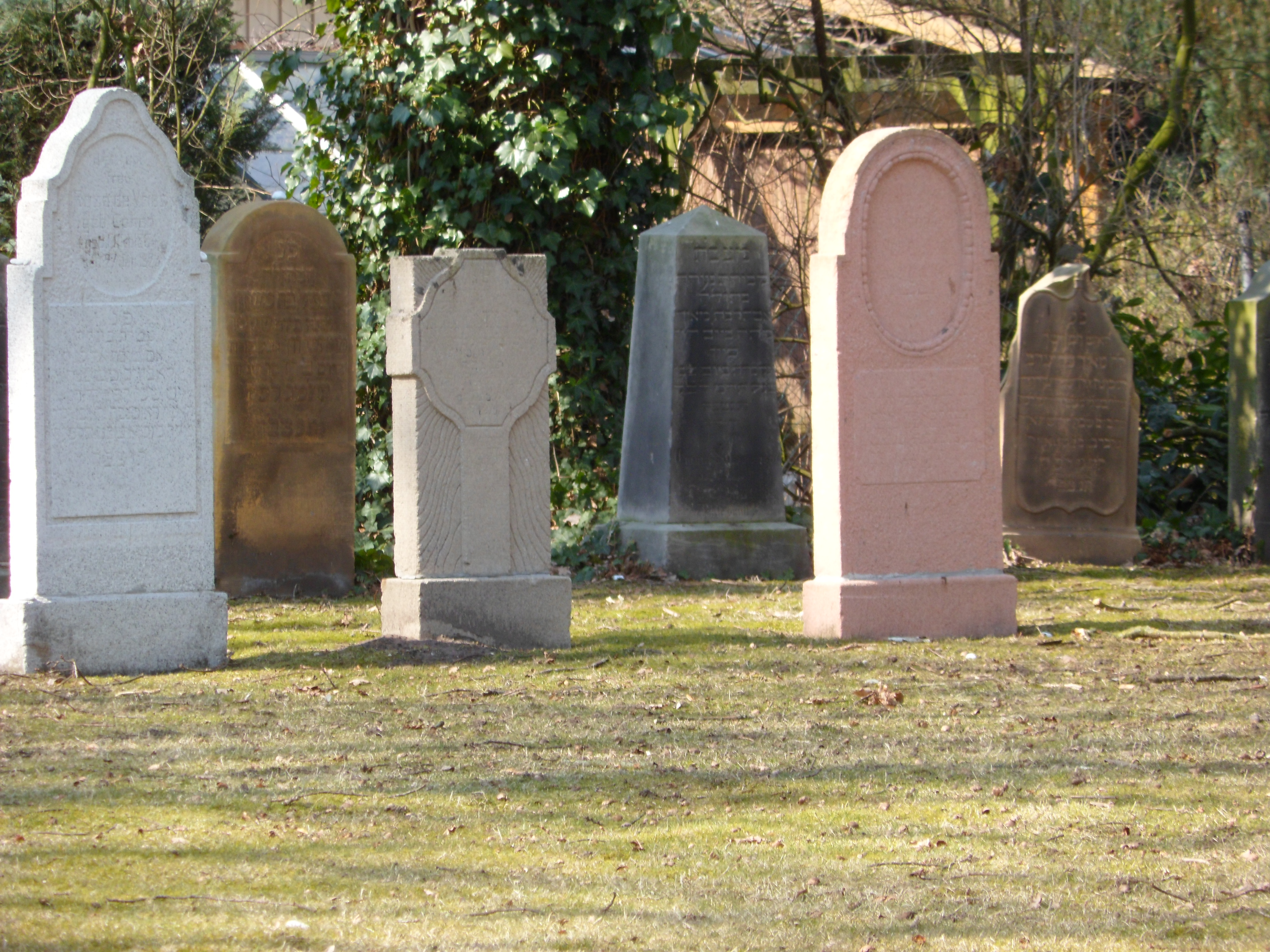 Nordhorn, jüdischer Friedhof